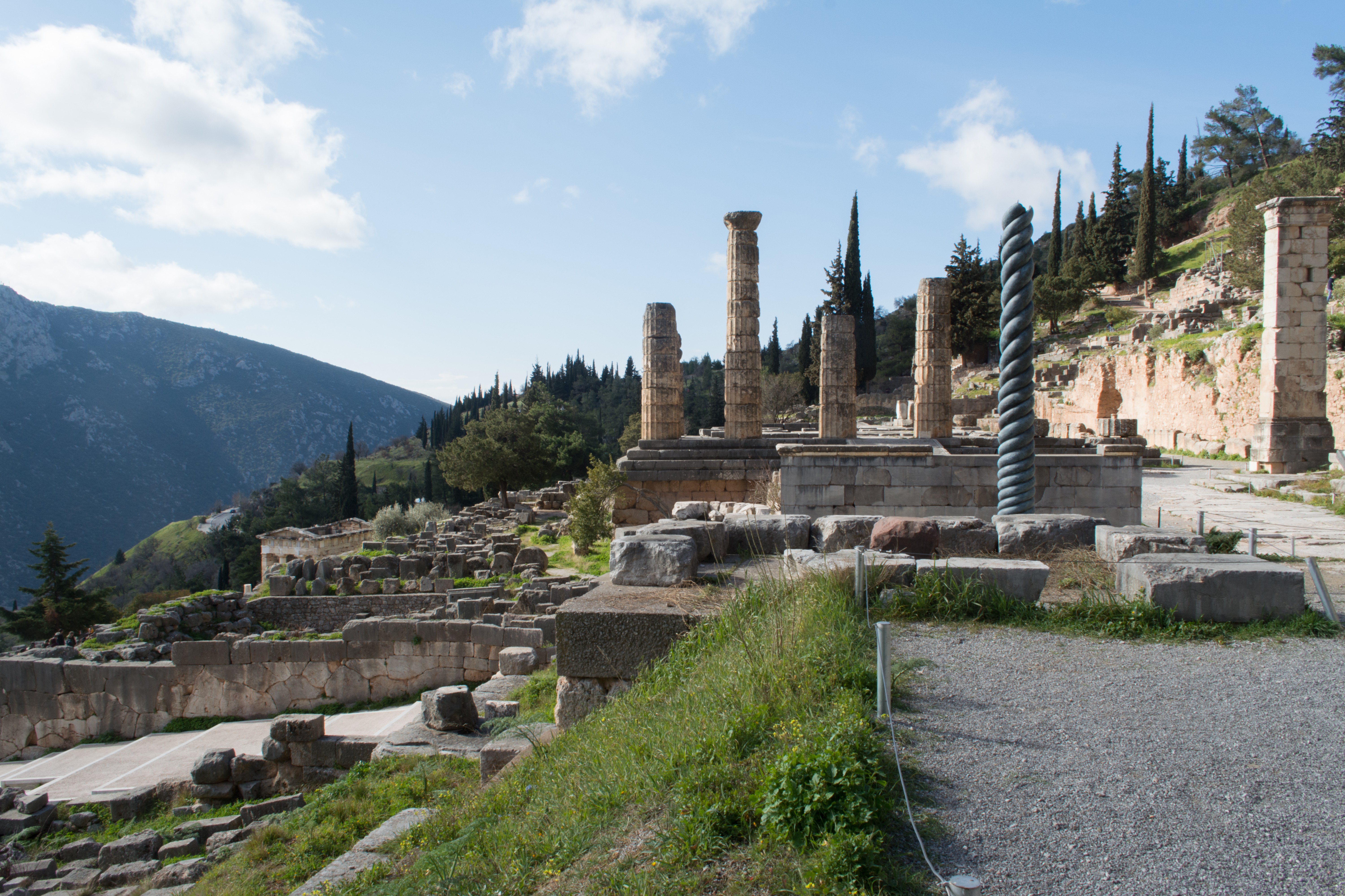 View of the Temple of Apollo from the north-east side of the Sanctuary.